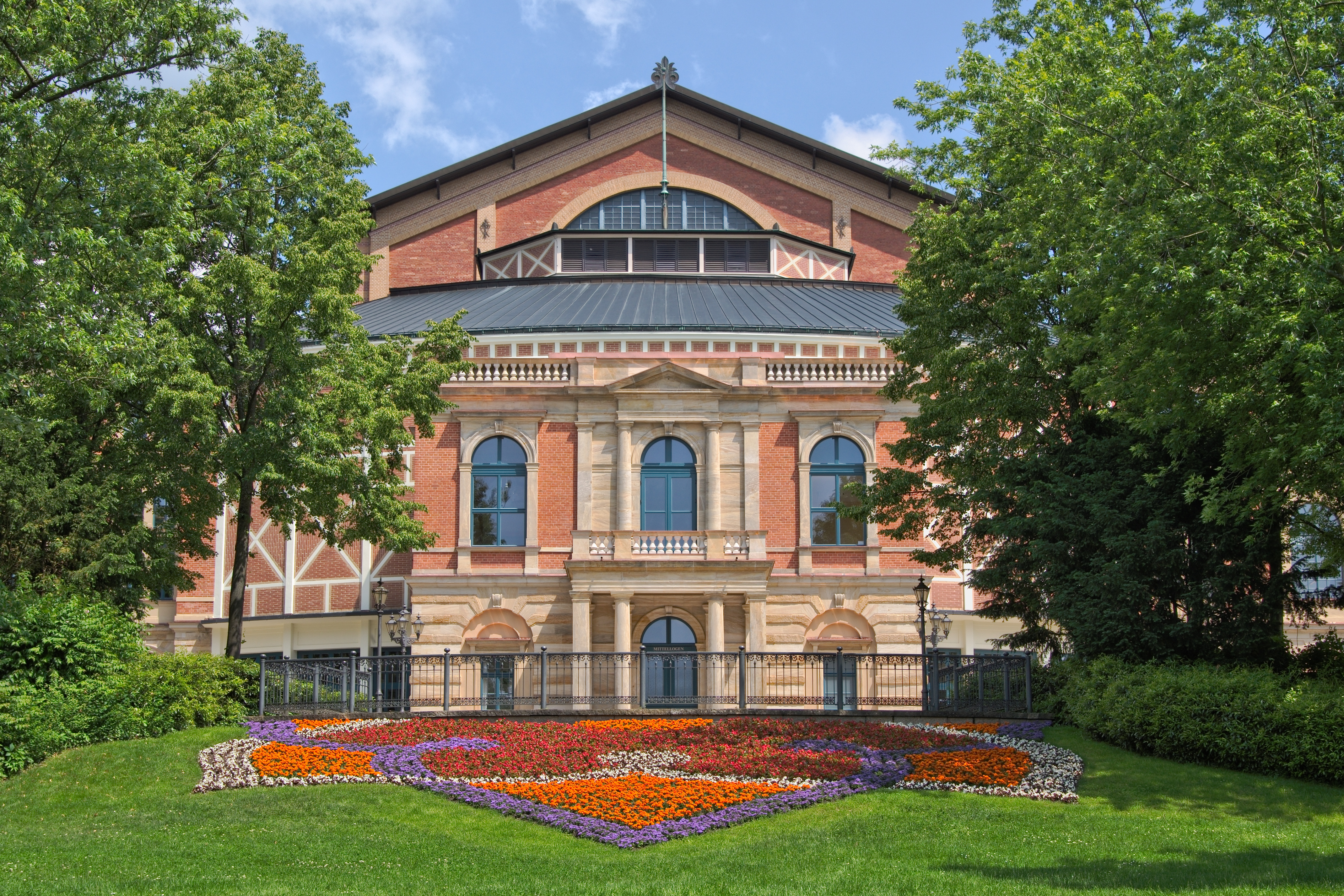 Southern front of the Bayreuth Festival Theatre (Festspielhaus) after restoration in 2016